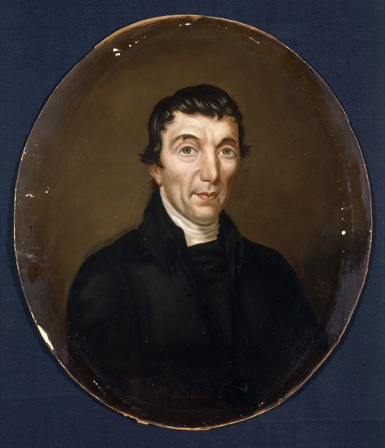 Portrait in oils of Welsh preacher John Elias (1774-1841), painted in 1839 by Welsh artist William Roos (1808-1878). Painting in National Museum of Wales collections.